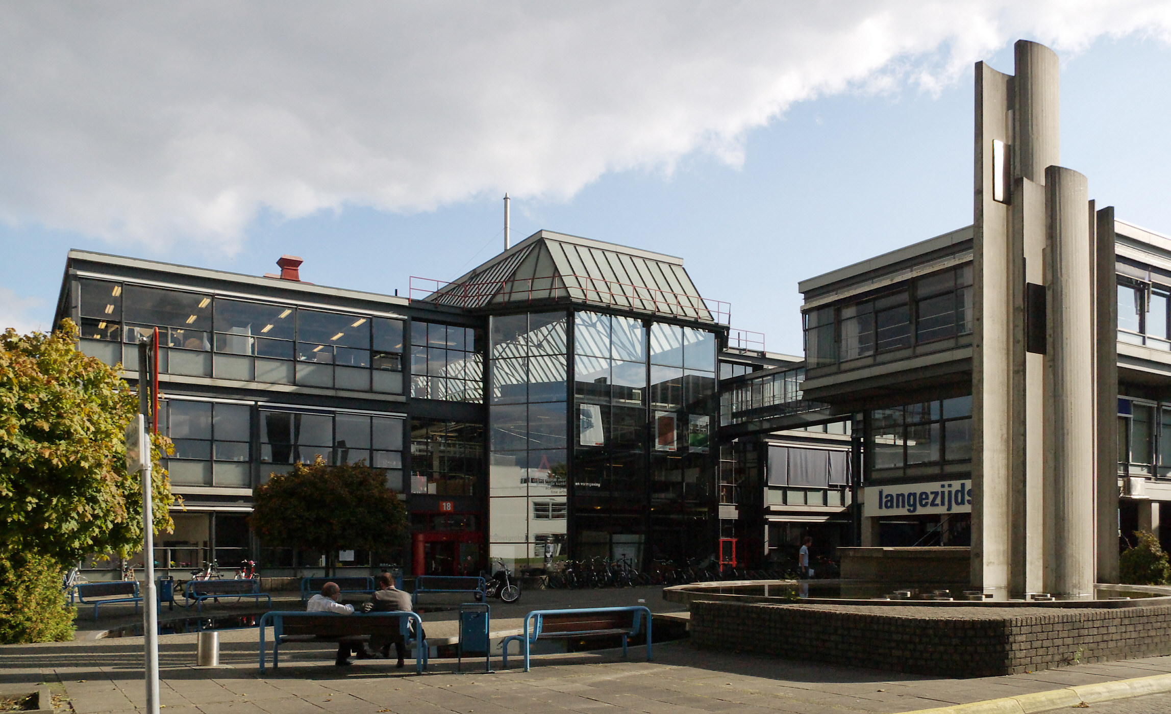 ArtEZ AKI, the Enschede Academy of Visual Arts, in Enschede, the Netherlands.